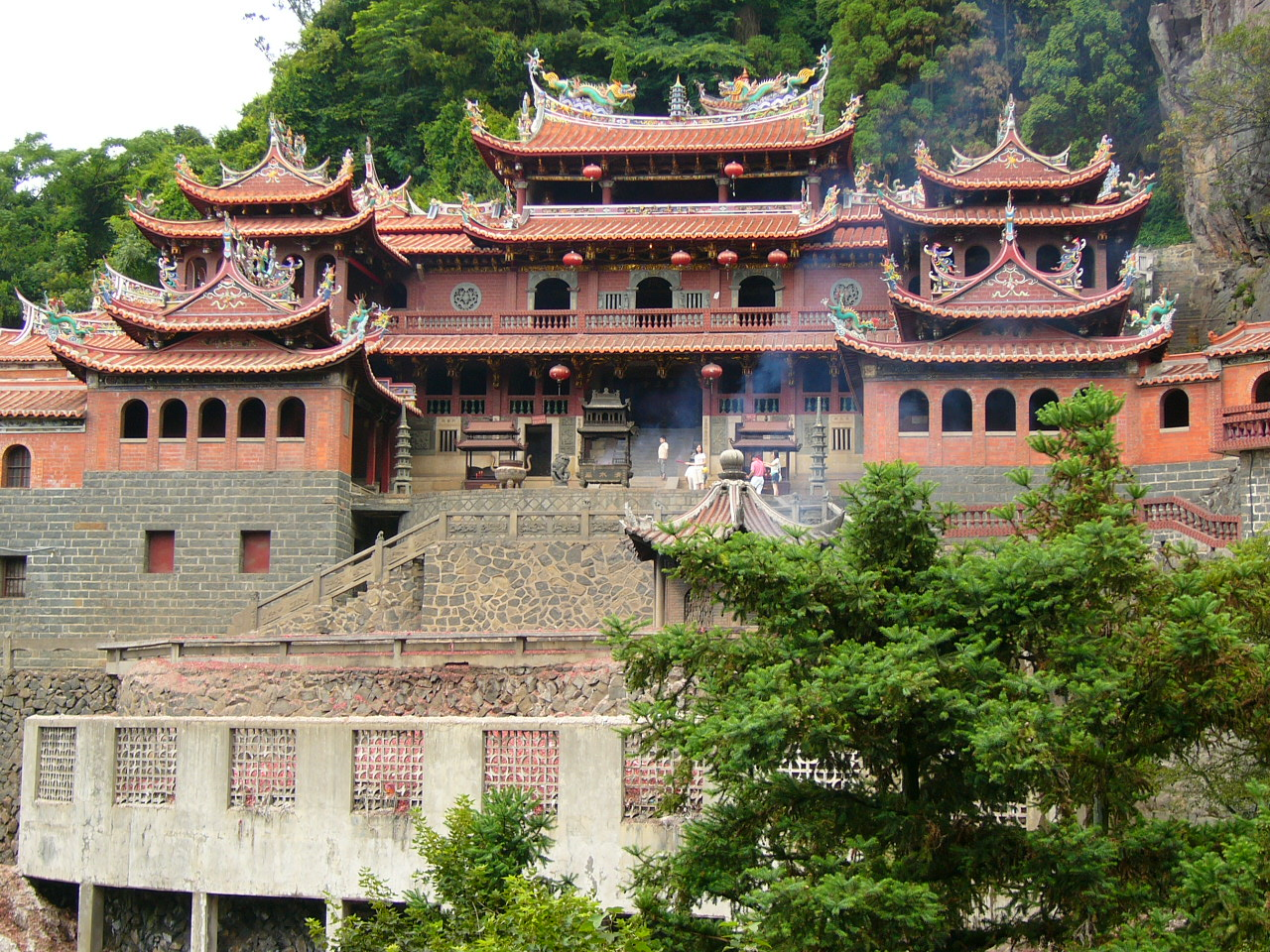 Qingshui Yan is a mountain hosting a very large Buddhist temple.